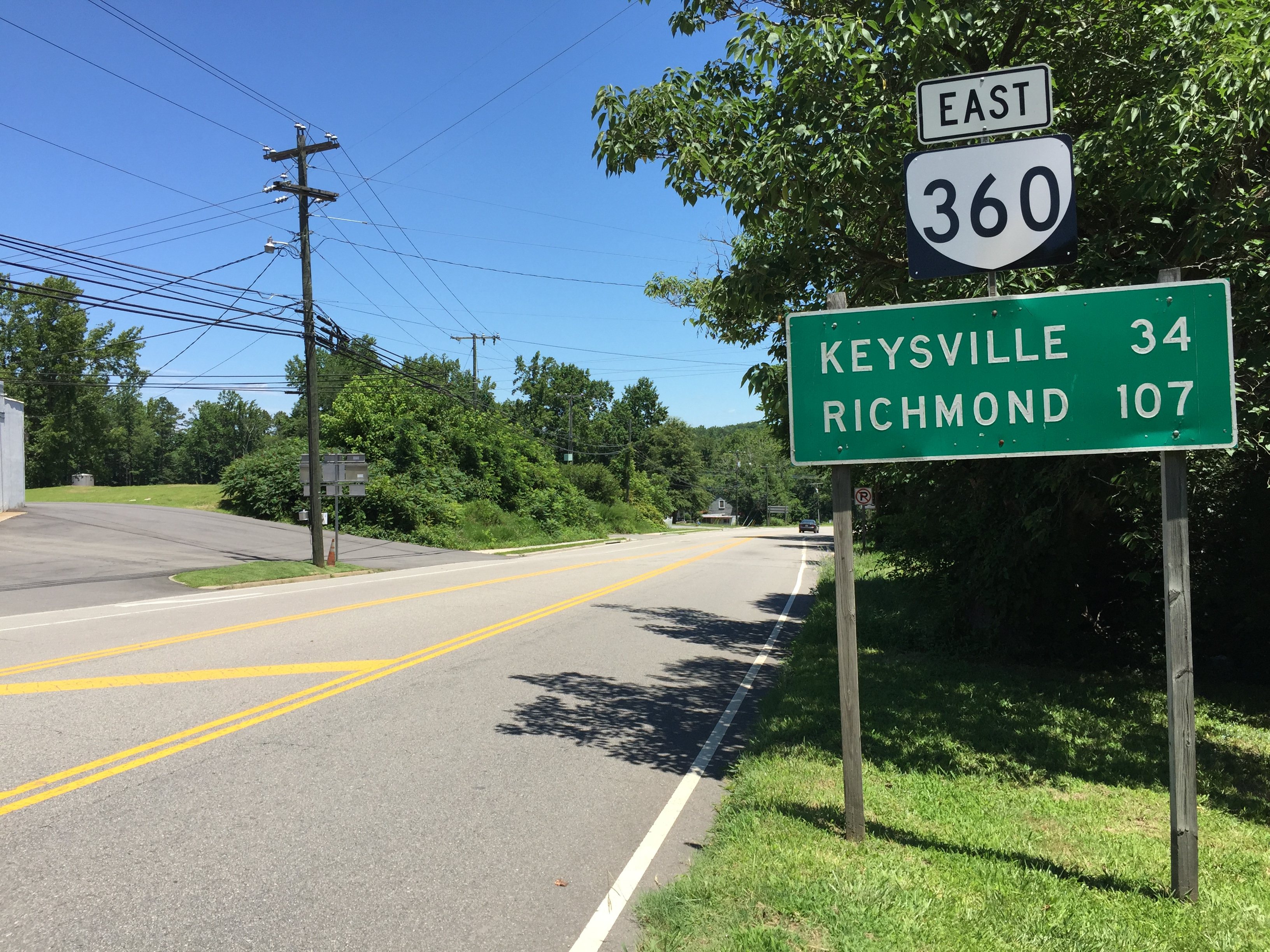 View east along Virginia State Route 360 (Bethel Road) at U.S. Route 501 (L P Bailey Memorial Highway) in Halifax, Halifax County, Virginia